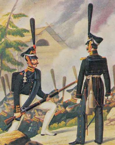 Ranks of the His Majesty Lifeguard Jaeger Regiment; coloured engraving by Petrov of the Gubarev´s original; middle XIX cent.